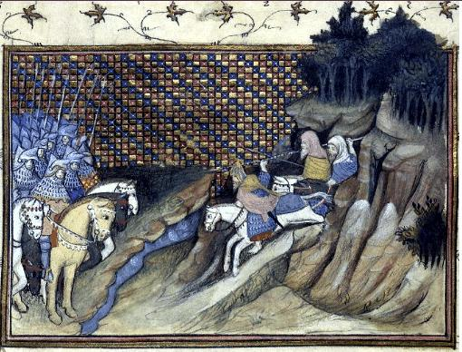 Art Mór Mac Murchadha Caomhánach riding to meet the earl of Gloucester, as depicted in an illustration to Jean Creton's Histoire du roy d'Angleterre Richard II (full)